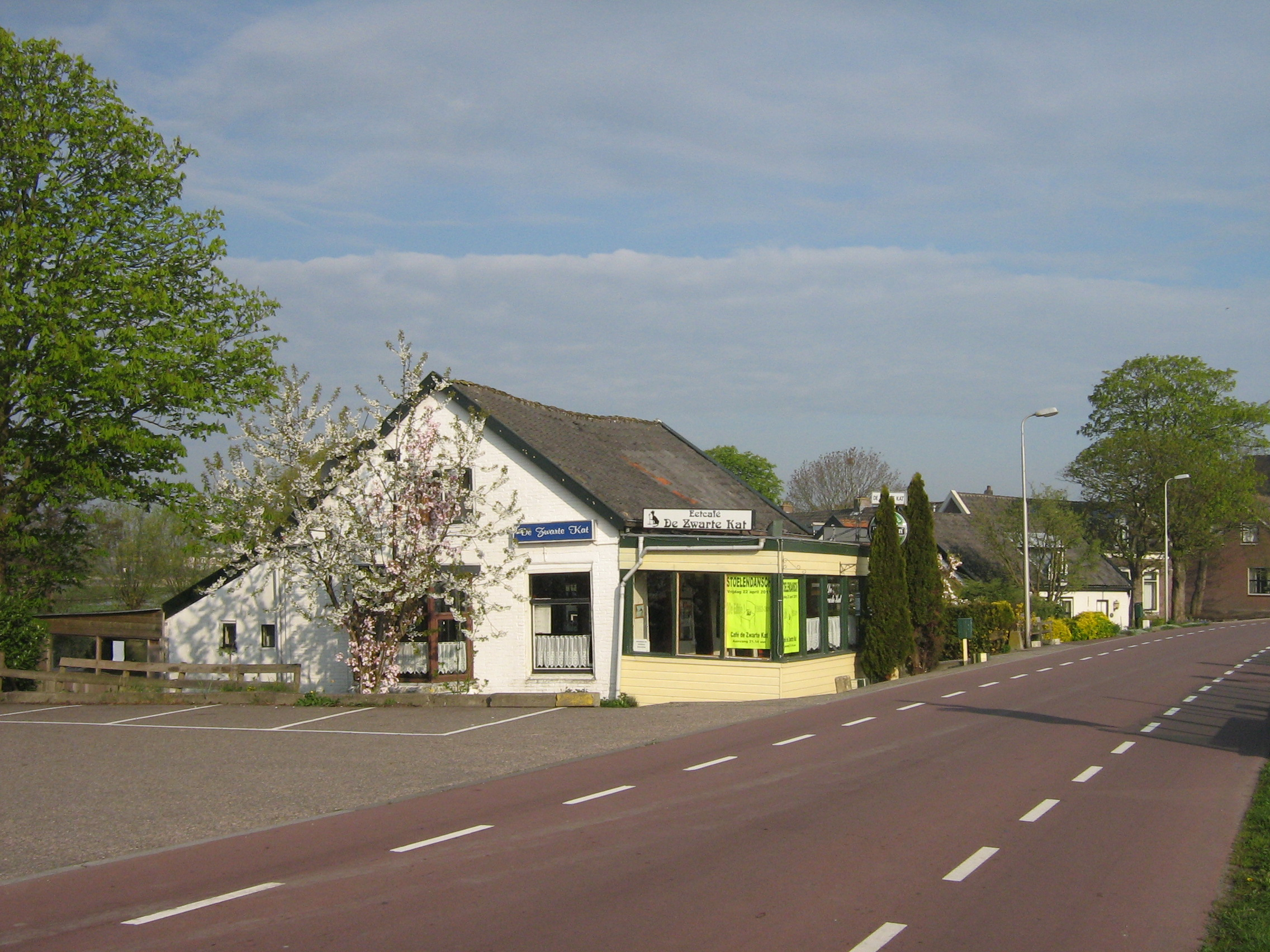 "De Zwarte Kat" ("The Black Cat"), a café at 105 Amsteldijk Zuid in the hamlet De Zwarte Kat, Amstelveen municipality, the Netherlands.